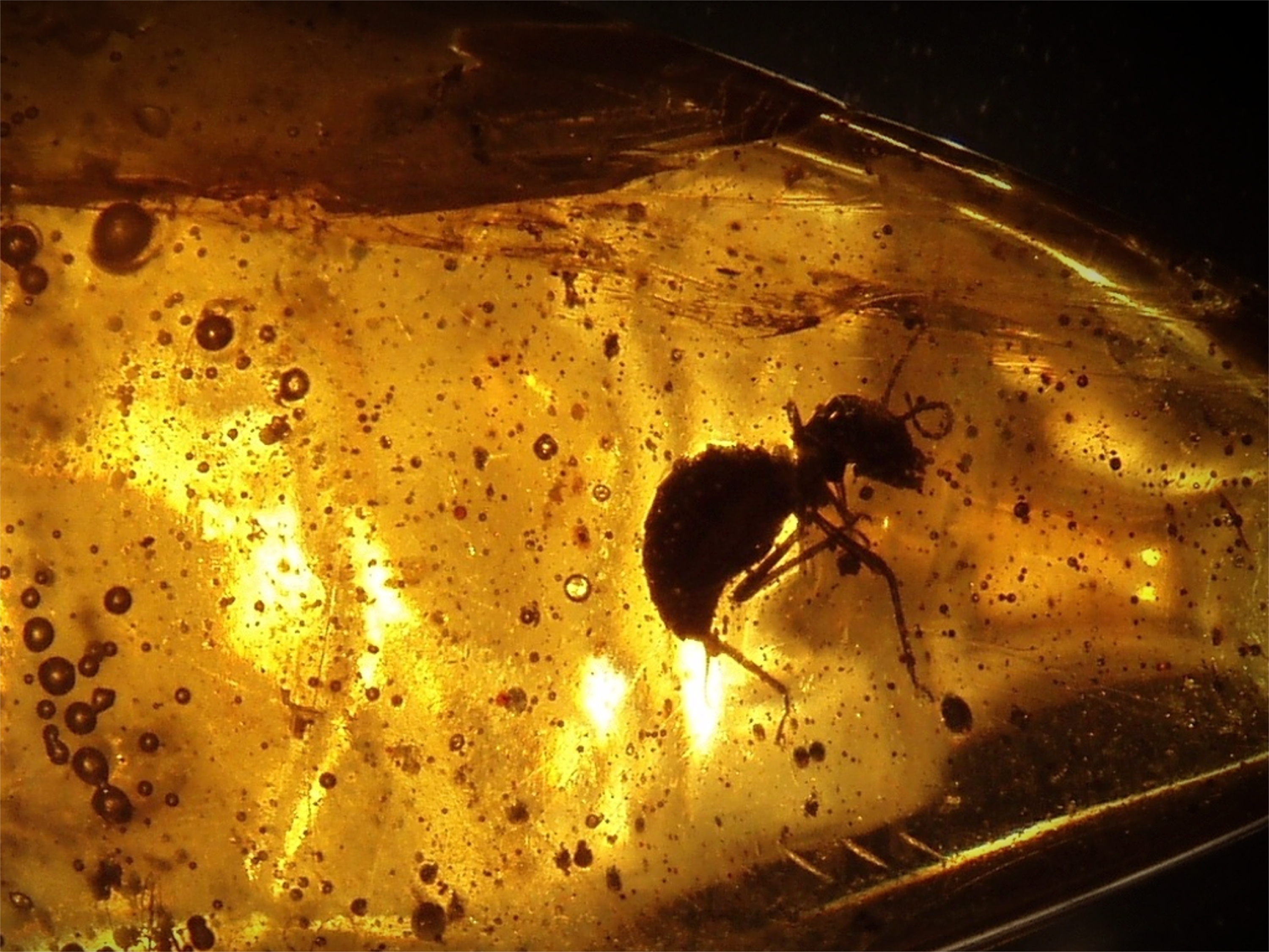 An ant in the small piece (1.5cm *2cm) of Amber